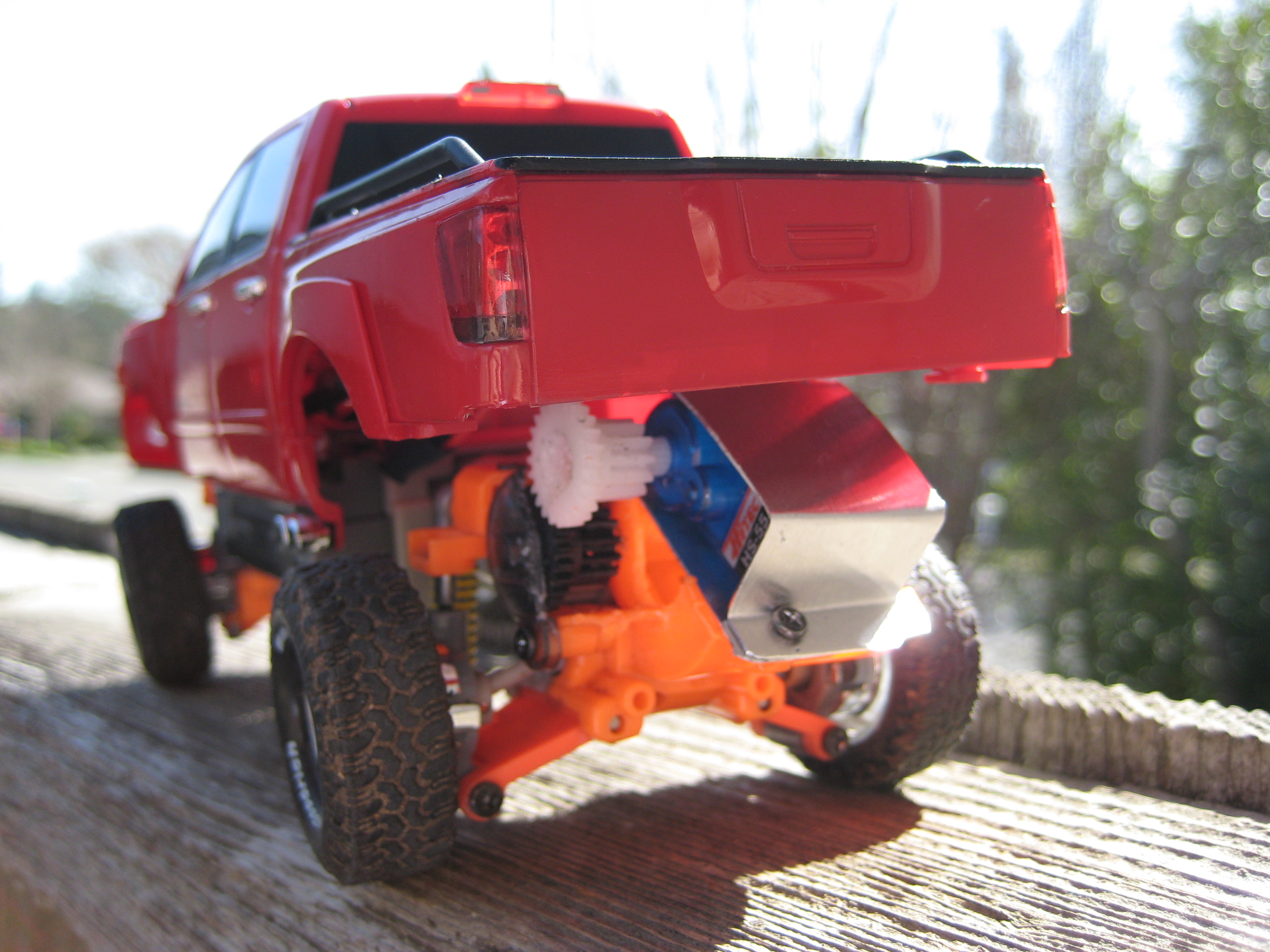 Servo Mod done onto a Nissan Titan Xmods